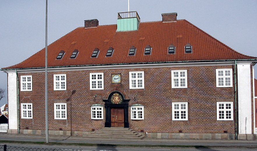 Picture taken in Frederikshavn, Denmark, 2005